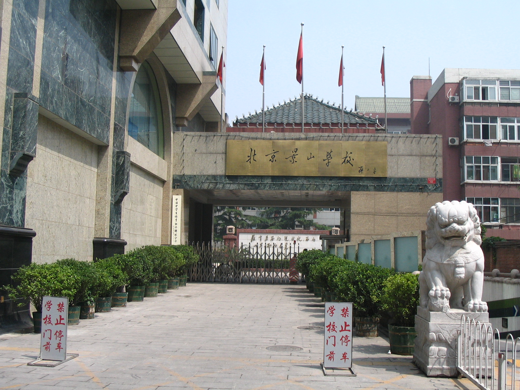 The entrance to the Jingshan school in downtown Beijing. Located on Denshikou road. 北京景山学校。